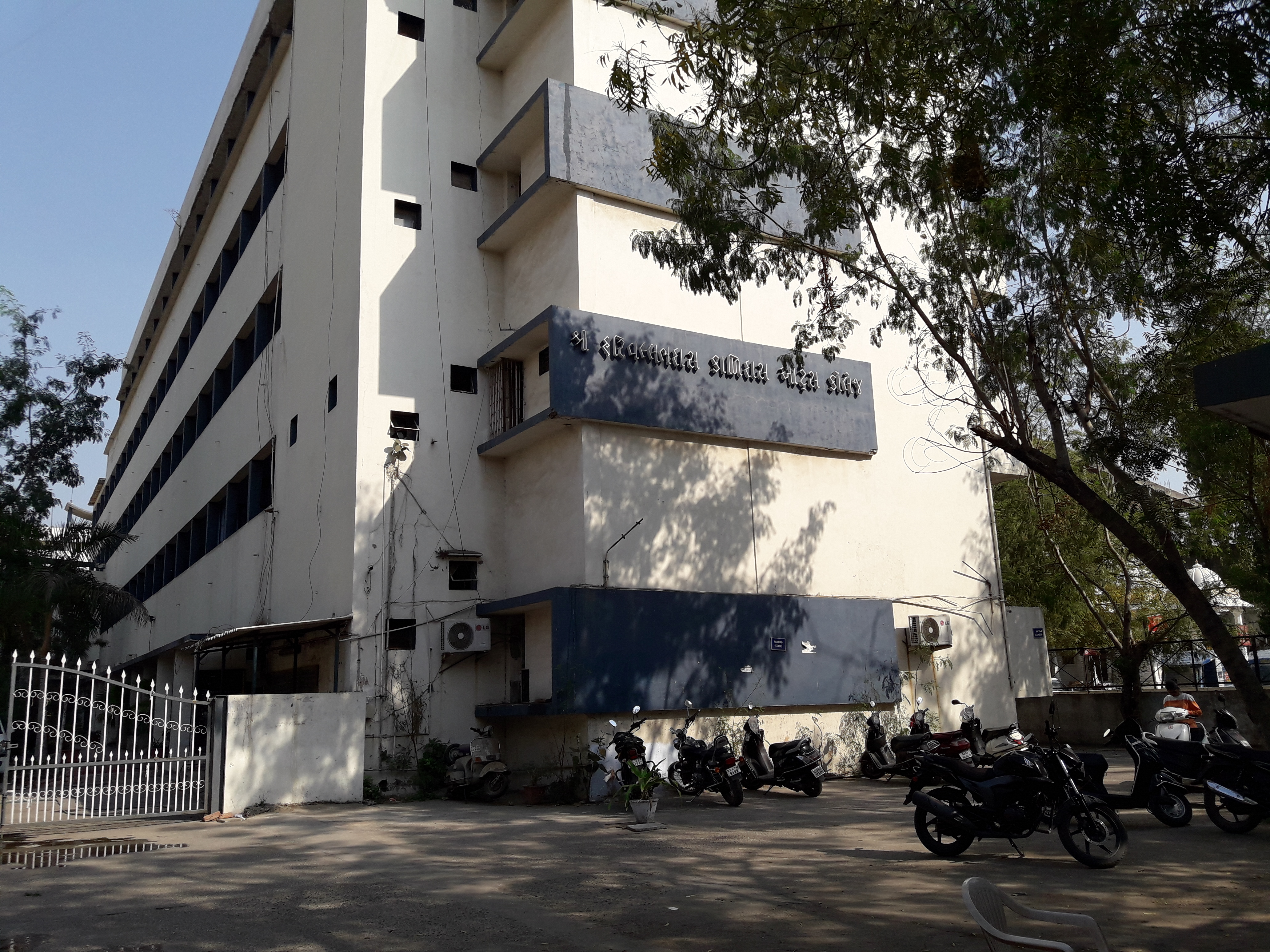 Harivallabhdas Kalidas Arts College, popularly known as H. K. Arts College, located at Ashram Road, Ahmedabad, India.